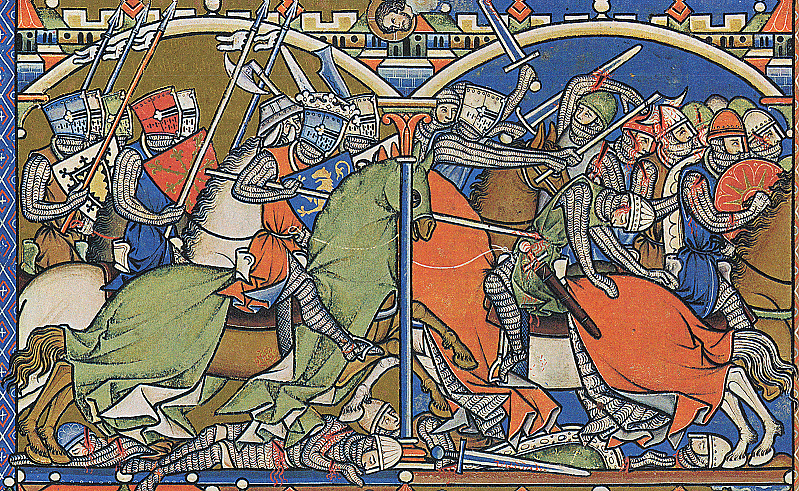 David defeats the Philistines, folio 39 (file title is wrong!).